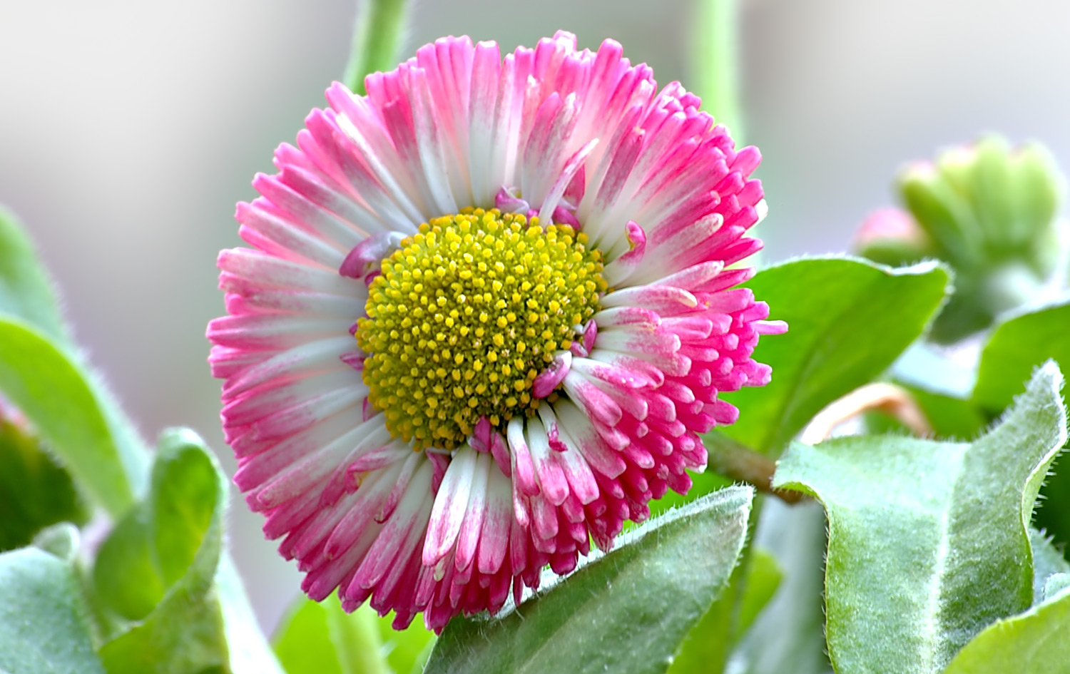 This image shows a Daisy flower (Bellis perennis).